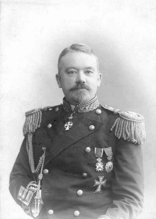 A portrait of Norwegian Rear Adminral Urban Jacob Rasmus Børresen, admirality chief of staff during the Norwegian/Swedish breakup in 1905.